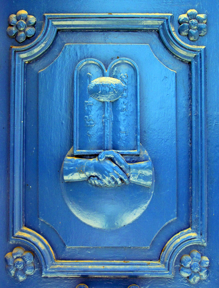 'Mikveh Israel' school of agriculture, Holon, Israel